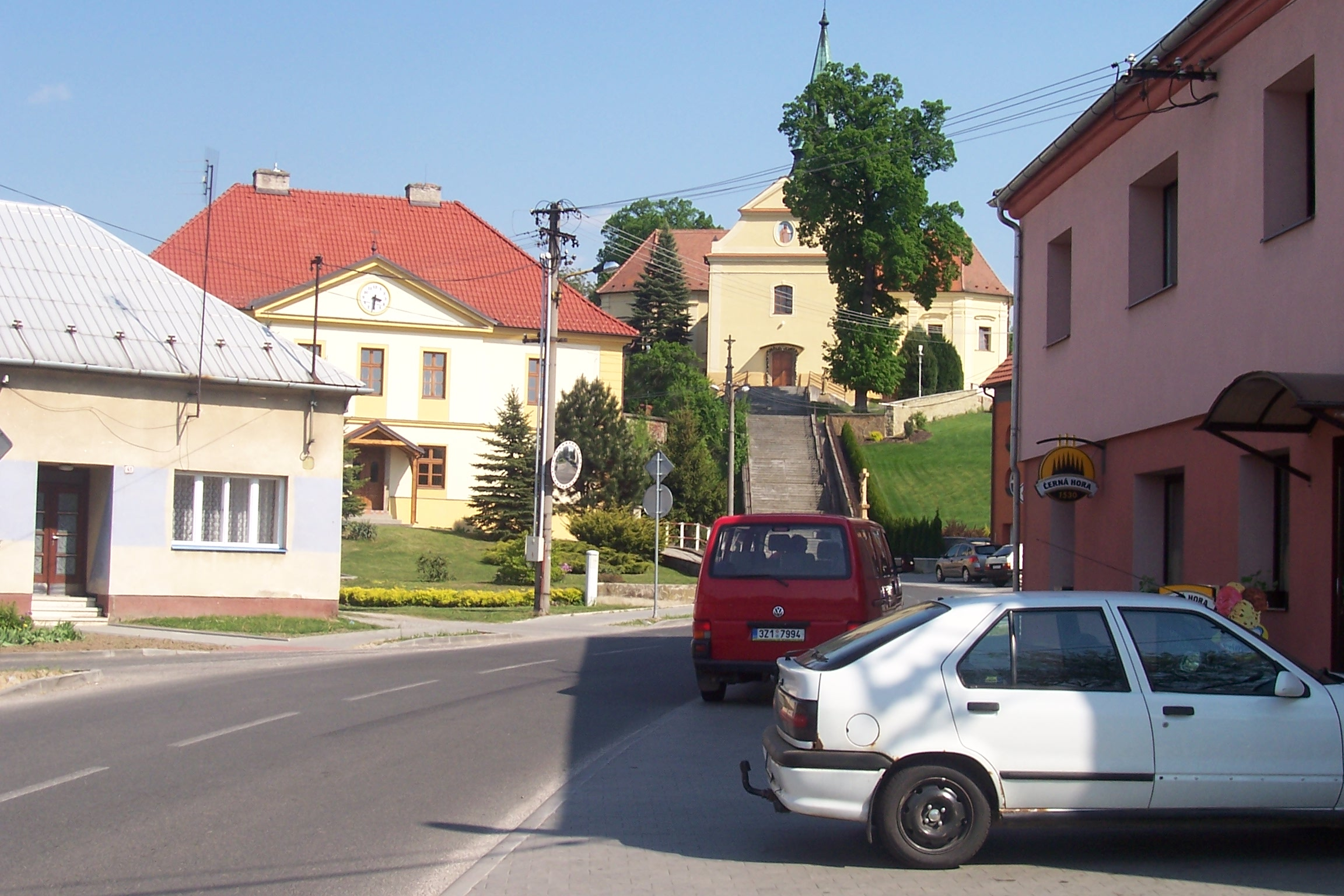 Bílovice in Uherské Hradiště District, Czech Republic. Church.